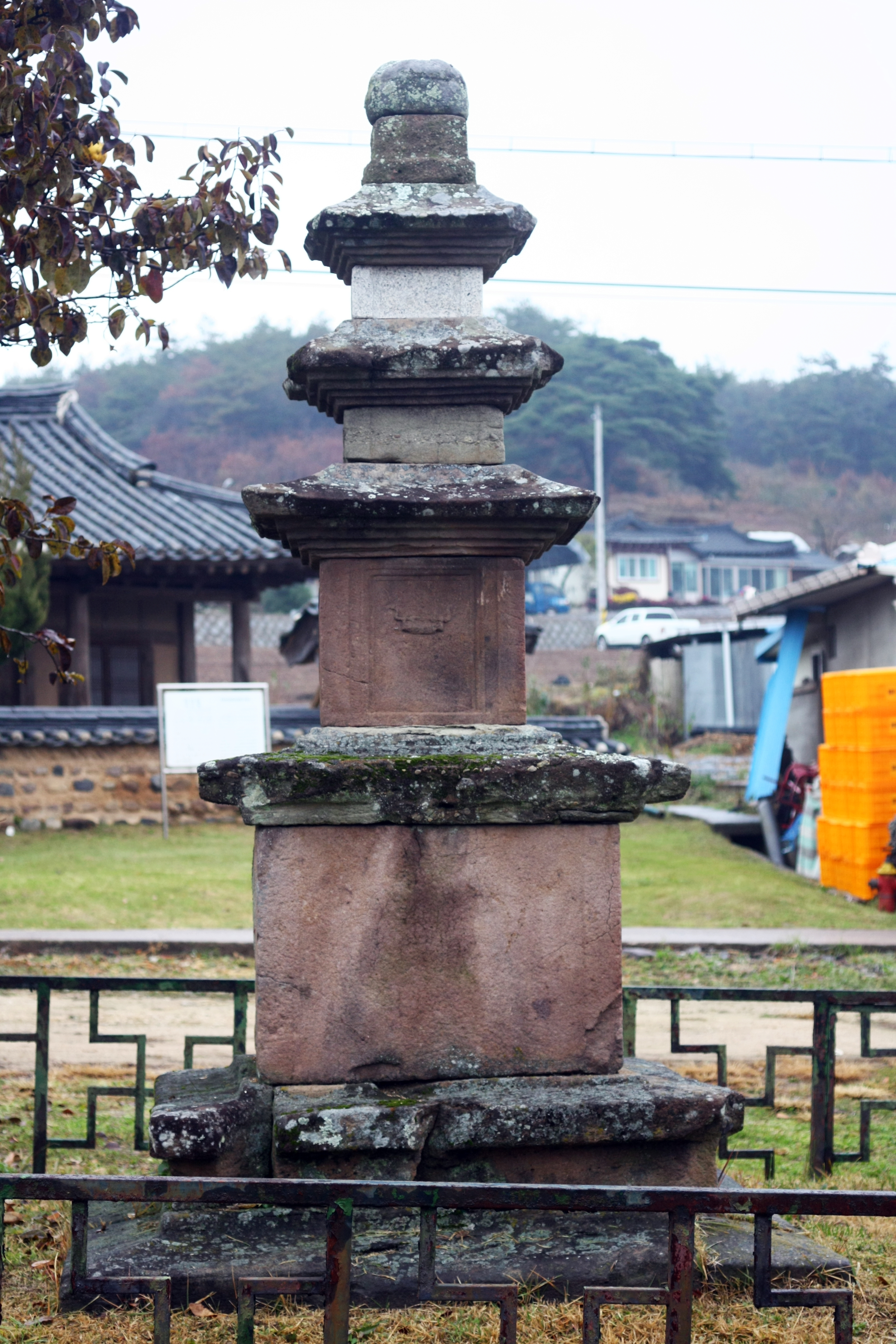 Three-story Stone Pagoda at Singu-ri, Yeongyang in South Korea